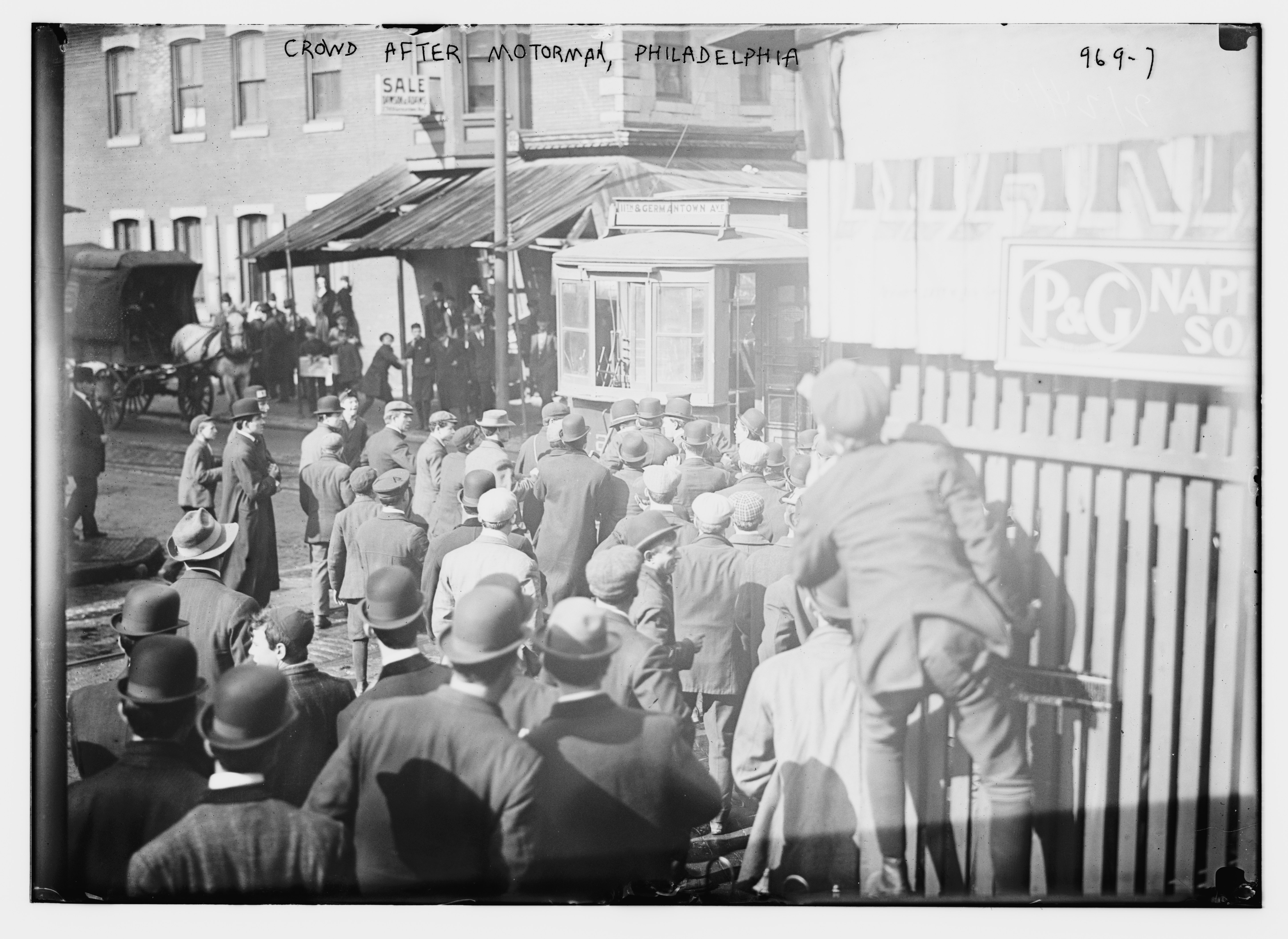 Title: Strikers clamoring for motorman of car, Philadelphia Abstract/medium: 1 negative : glass ; 5 x 7 in. or smaller.